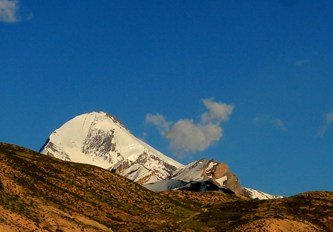 Manirang from Dhankar Lake spiti